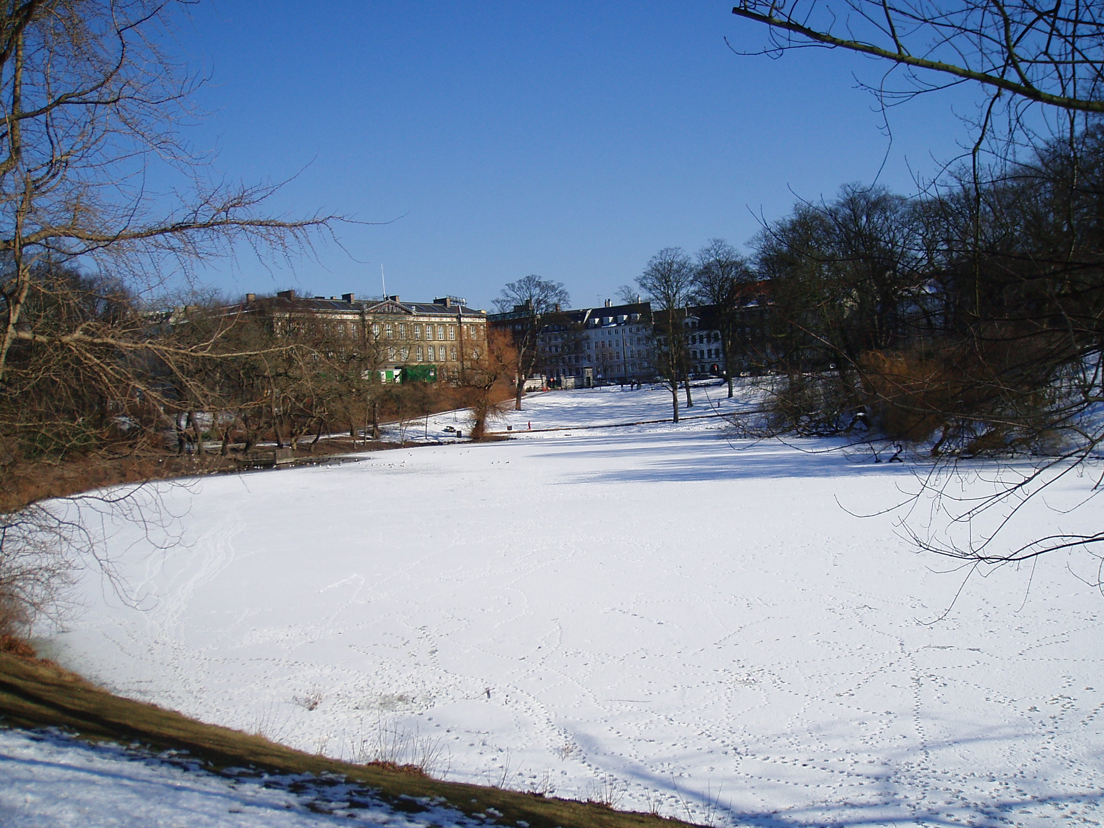 Ørstedsparken seen from its southern part in western direction across the lake.